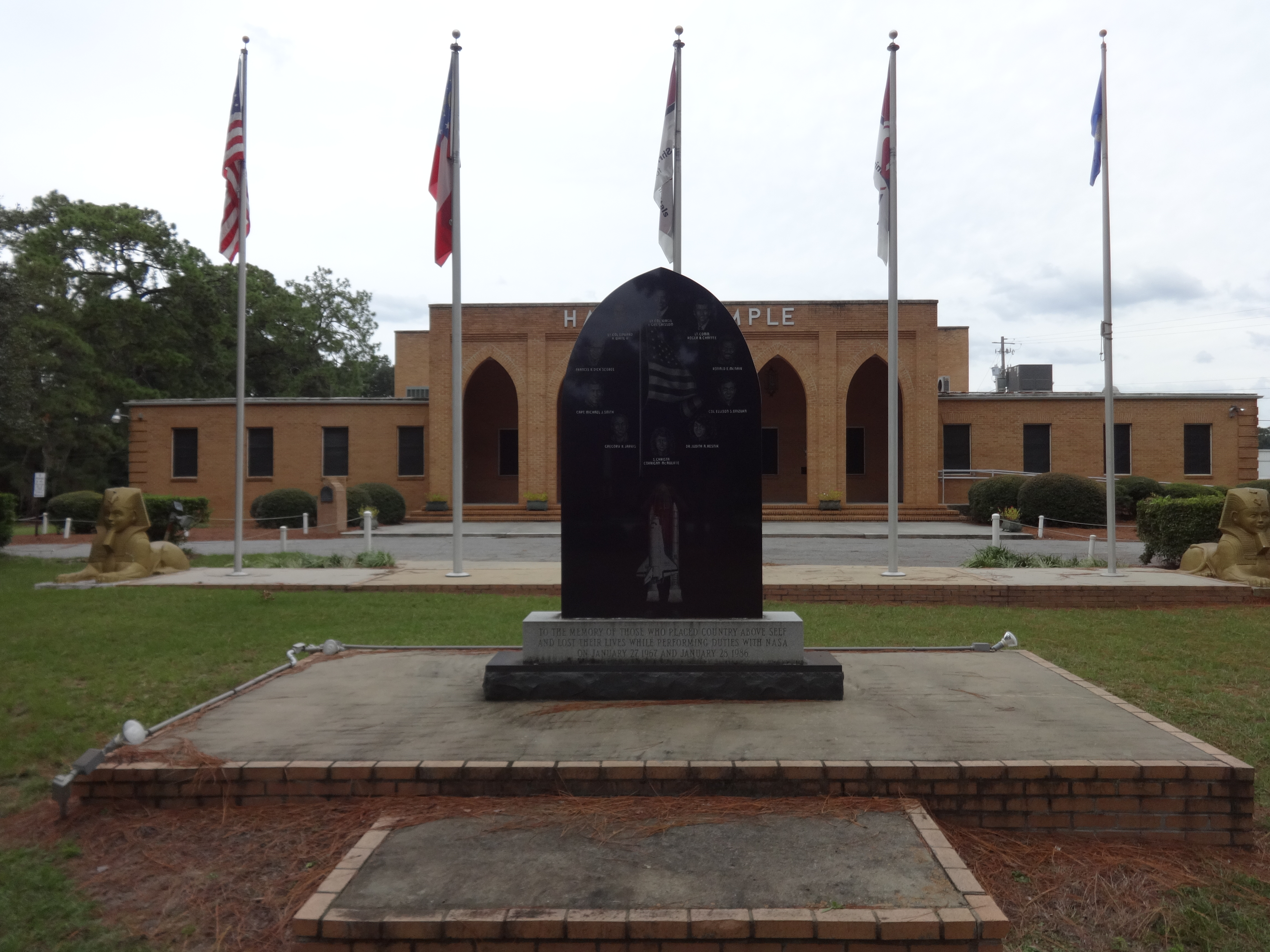 Astronauts Memorial (front), Hasan Temple, Albany, Dougherty County, Georgia